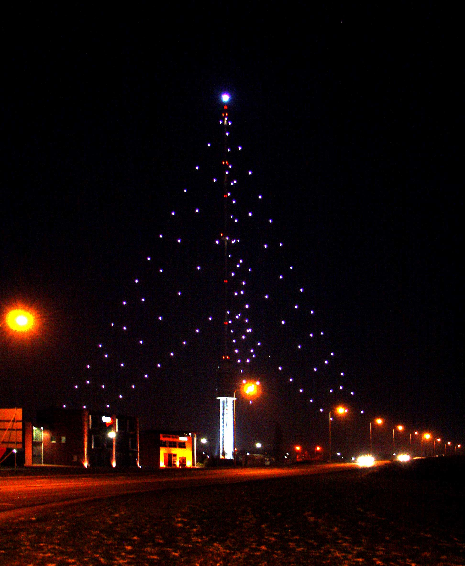 Illumination at Christmas time of the "Gerbranytower" the transmitter tower for FM radio and television at IJsselstein.